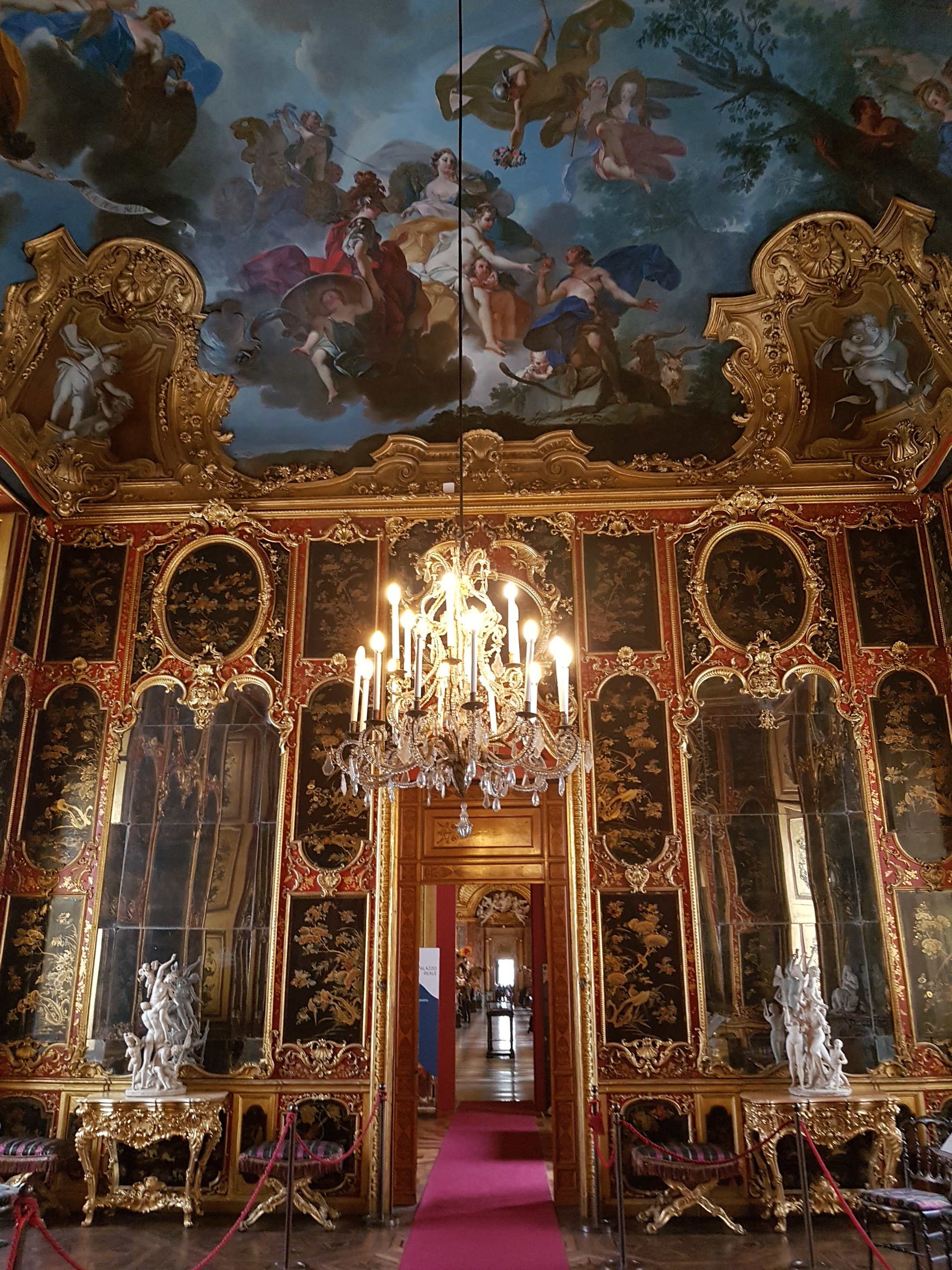 First floor: Chinese Cabinet, Royal Palace of Turin, Northern Italy